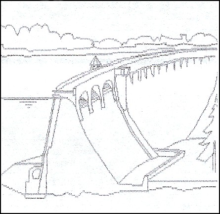 3D drawing of a gravity dam